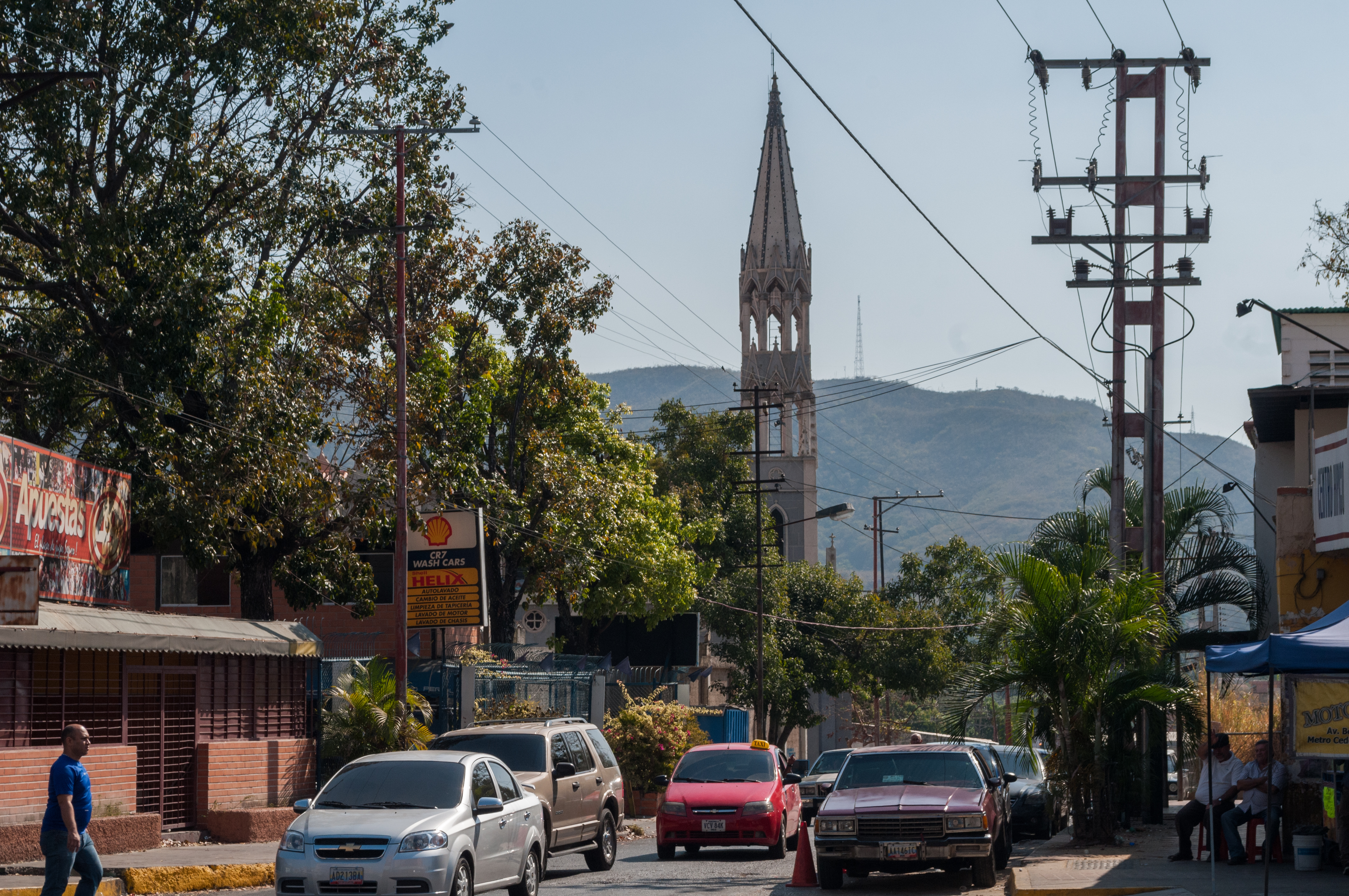 Navas Spinola East Street in Valencia city, Venezuela. Picture taken from Bolívar Avenue by Metro Cedeño Station North. San José Parish